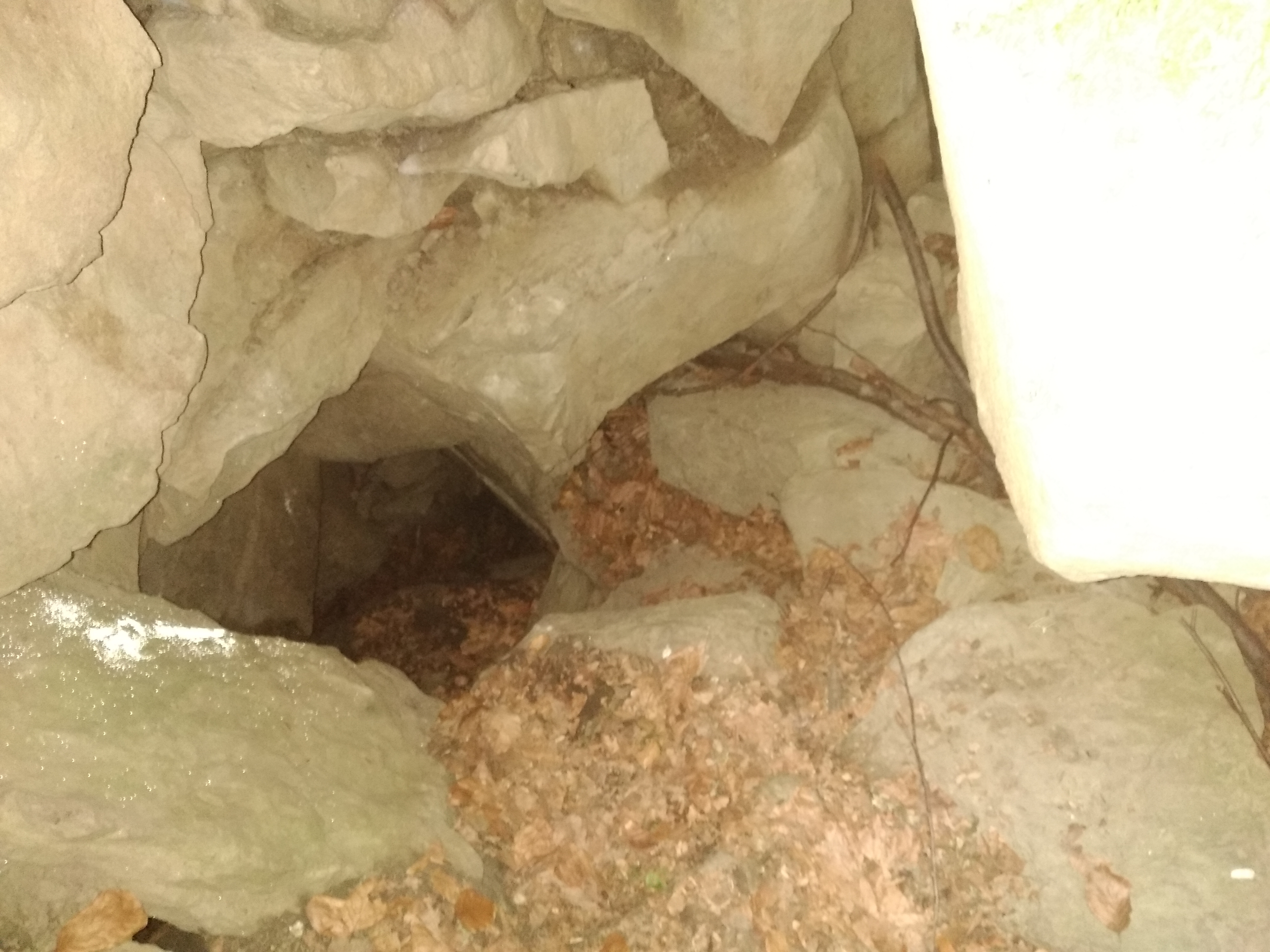 Entry to small cave in Żmiąca-polish village